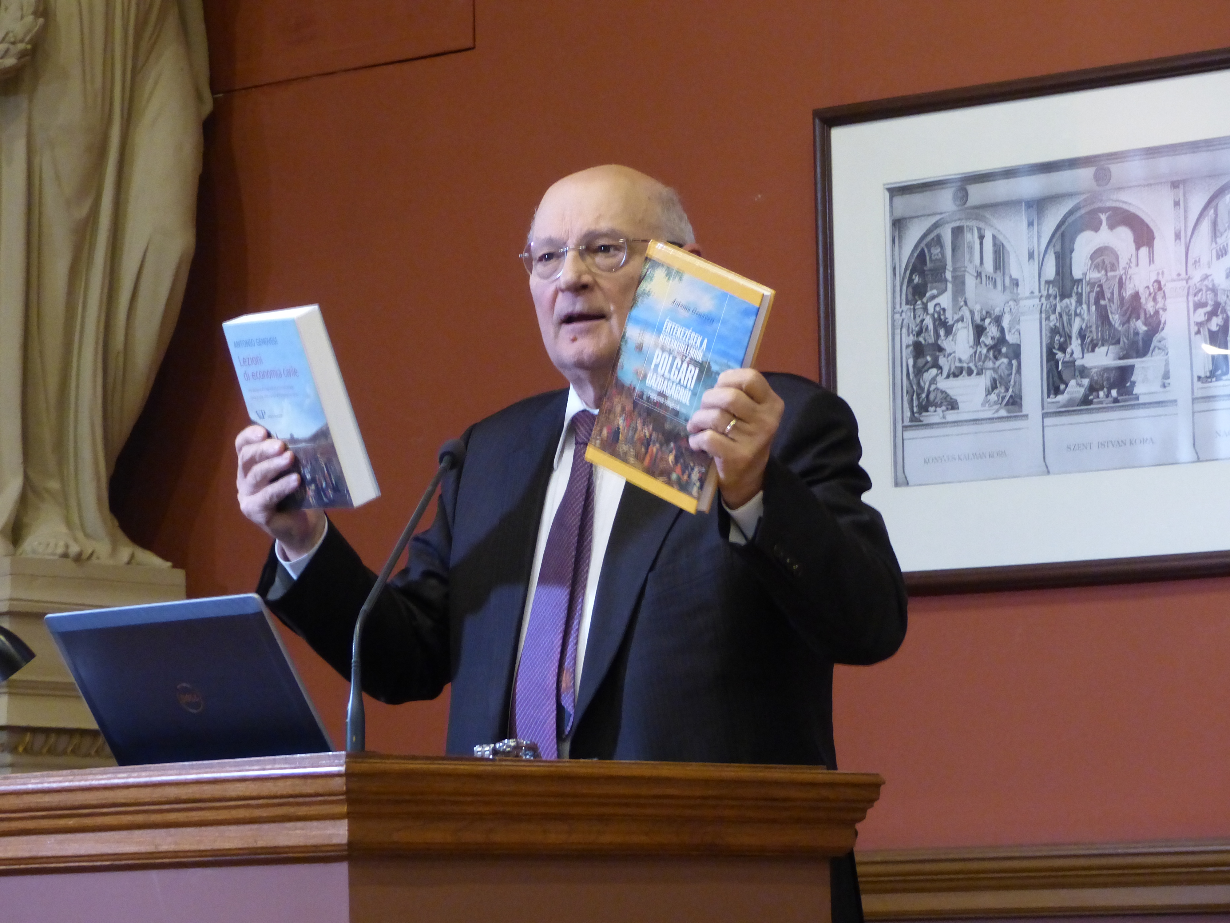 Stefano Zamagni. Taken on the 23rd of February, 2017. Hungarian Academy of Sciences, Central Europe. Stefano Zamagni and Paul Dembinski discussed questions on Civil economics, Antonio Genovesi.